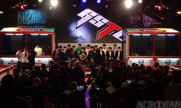 BenQ GSTL Season 1